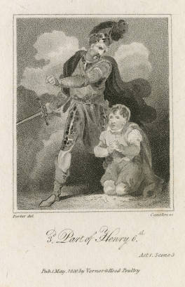 Clifford prepares to kill Rutland in Henry VI, Part 3